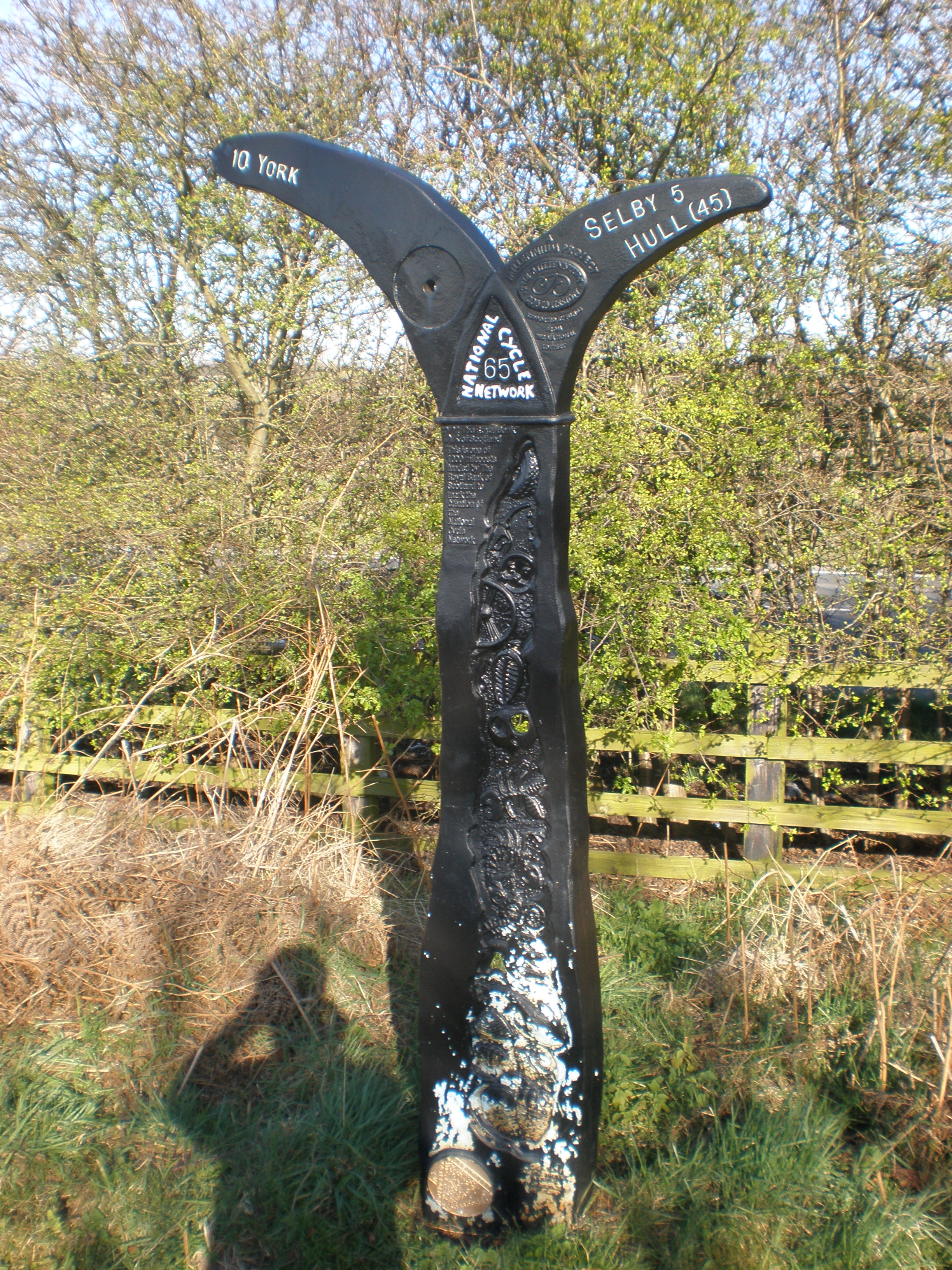 Riccall, near York